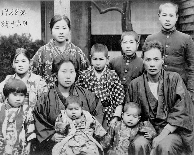 Asian Family in Brazil